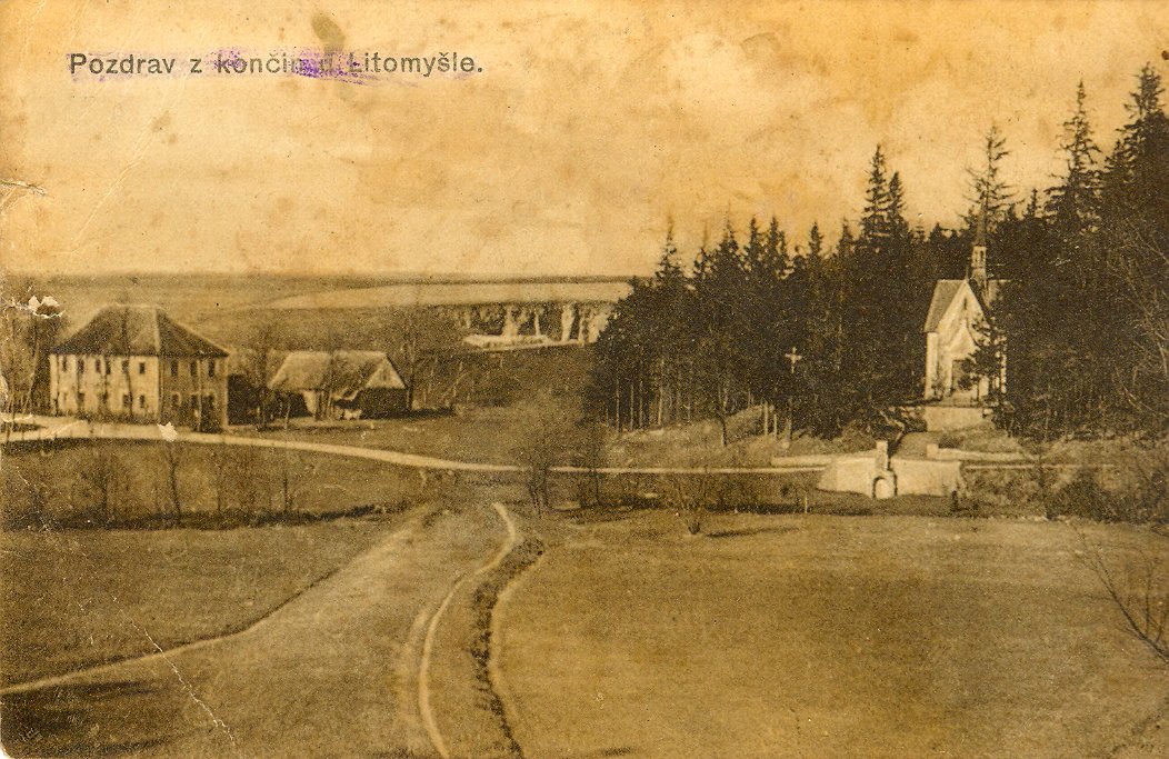 Postcard of Končiny near Litomyšl (nowadays part of Sloupnice municipality), early 20th century.